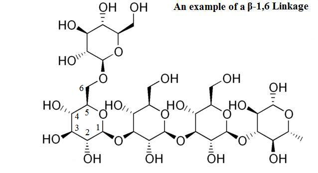 Example of carbon numbering.